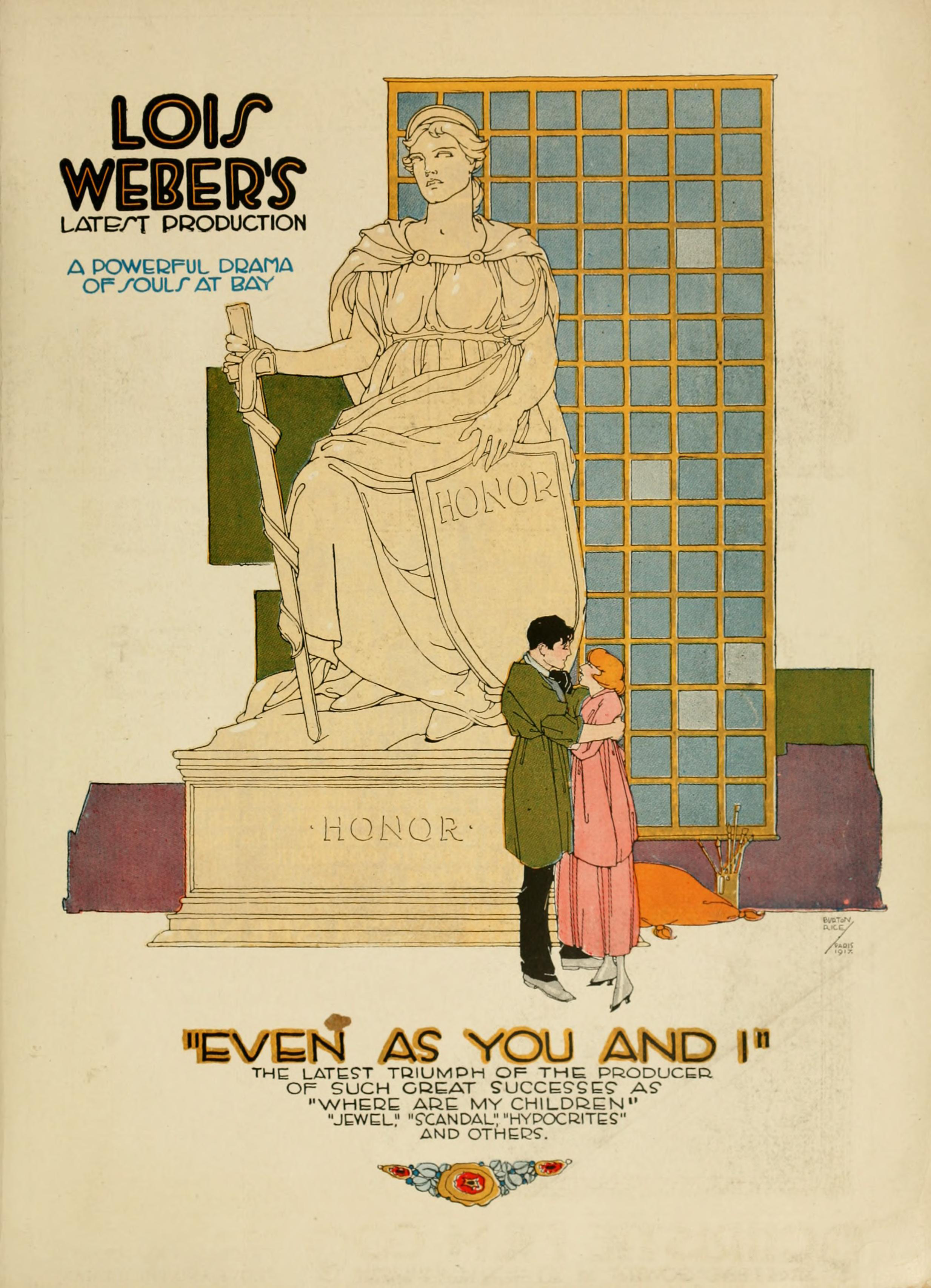 Advertisement in Moving Picture World